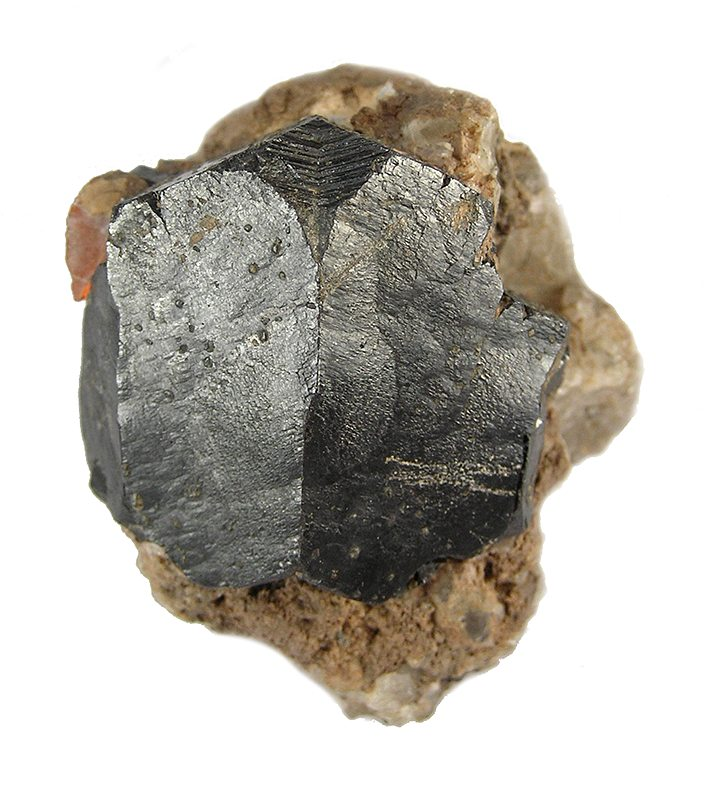 Cassiterite Locality: Black Hills, South Dakota, USA (Locality at ) Size: miniature, 5.1 x 4.4 x 4.2 cm Cassiterite (twinned) Tin ore is very limited in the USA. Therefore, it is rare to see large crystals of the primary tin mineral, cassiterite. This one, in quartz, is doubly terminated, lustrous and twinned, with classic, re-entrant faces. The dark gray crystal measures 3.5 cm in length. This is undoubtedly a major American cassiterite and is by far the best I have seen from this locale. However, the combination of form and matrix makes it unique and really quite astonishing for a US piece. Ex. Richard Hauck Collection.